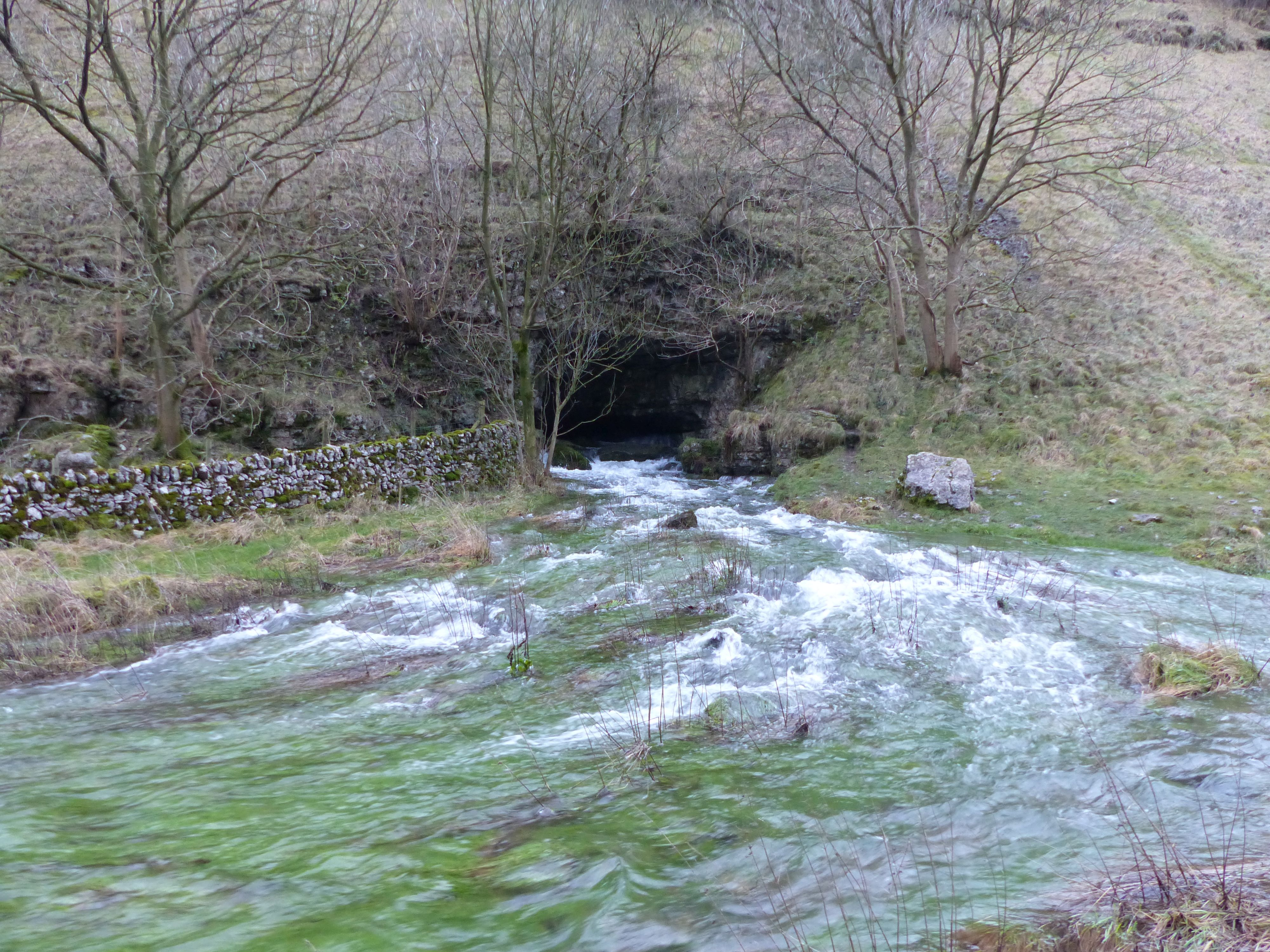 When the water table is high, this cave is the source of the River Lathkill. In drier periods, the cave is dry and the river rises from smaller springs further down the valley.